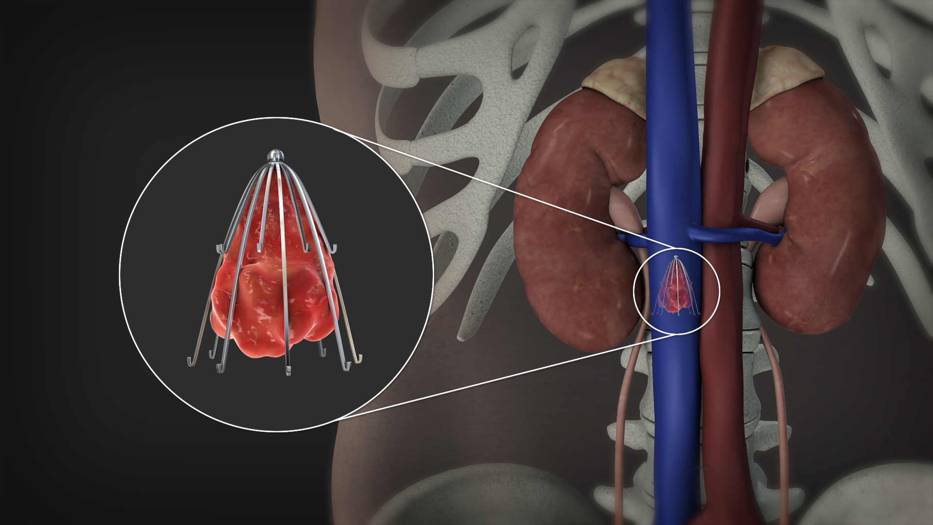 3D Medical Animation still shot showing the Inferior vena cava filter over a blood clot